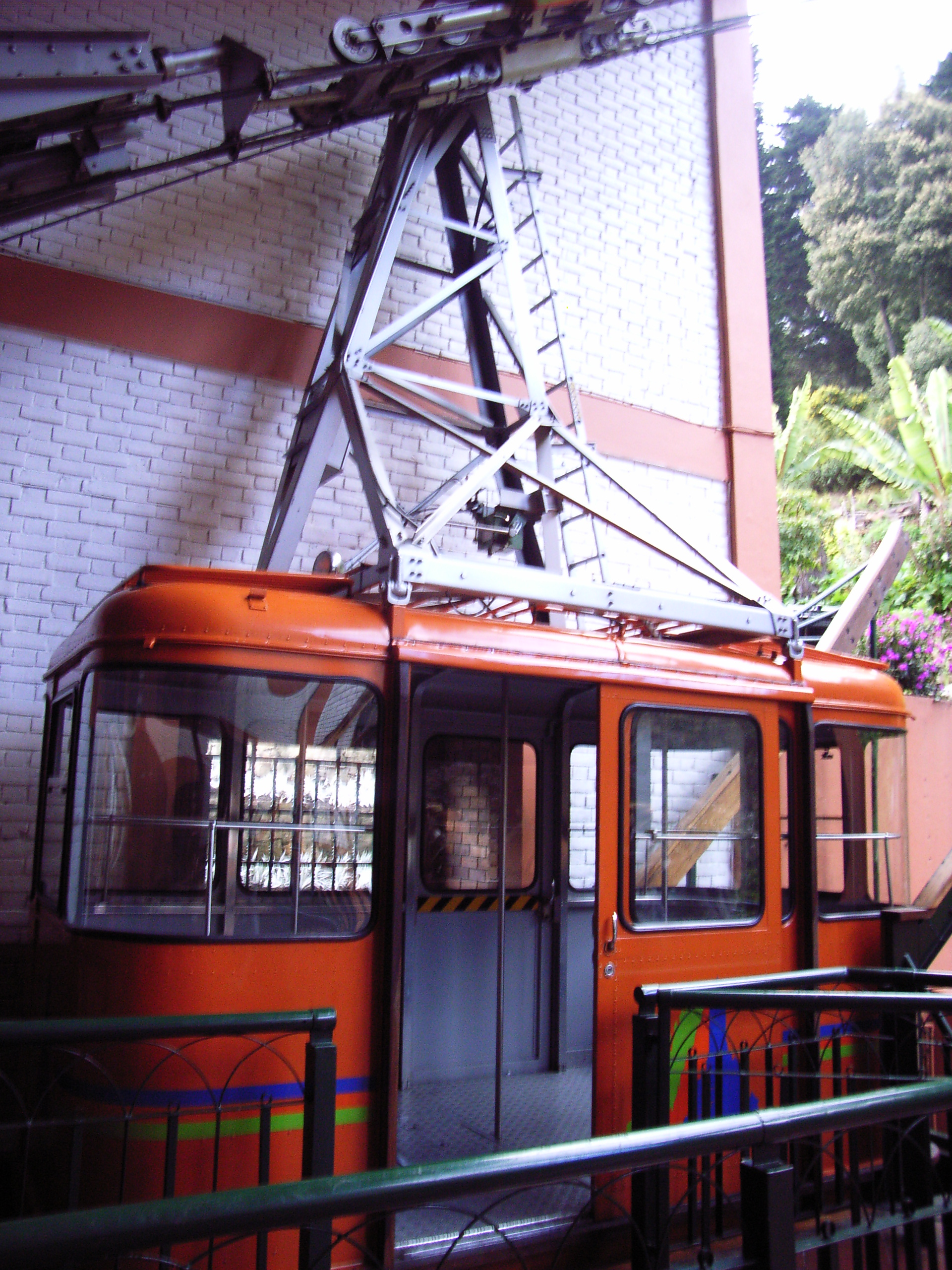 Bagon de Monserrate, Bogotá